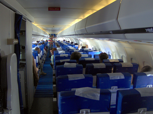 View of Aerolíneas Argentinas' Clase Turista (Economy Class) on a MD-83, from Buenos Aires to Jujuy.